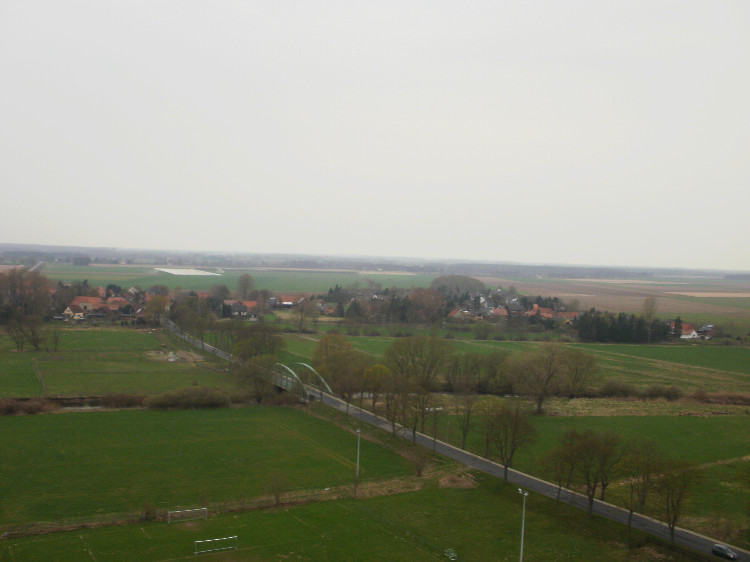 Aerial View